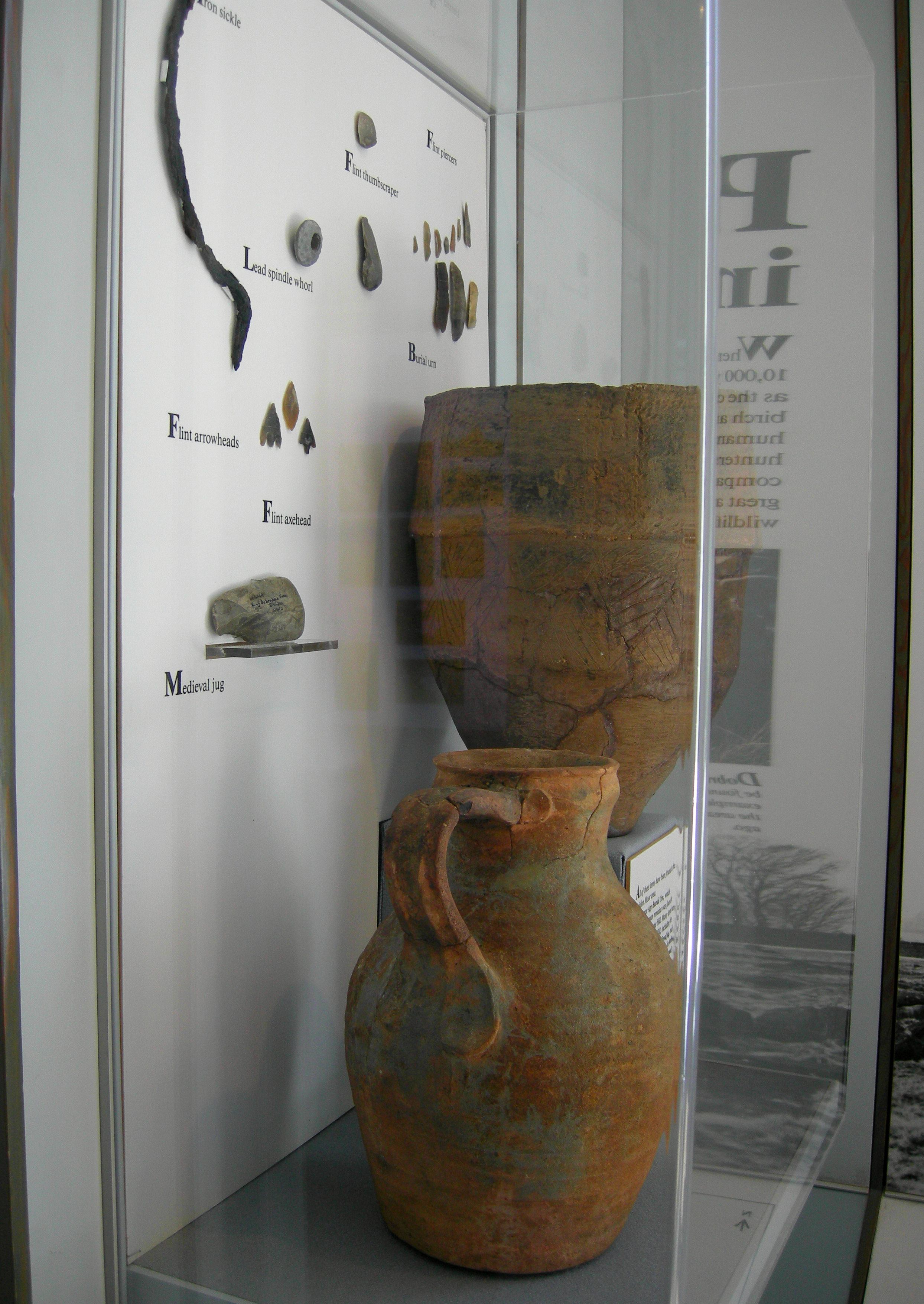 Prehistoric and medieval artefacts display at Bracken Hall Countryside Centre and Museum, Baildon, West Yorkshire, England.